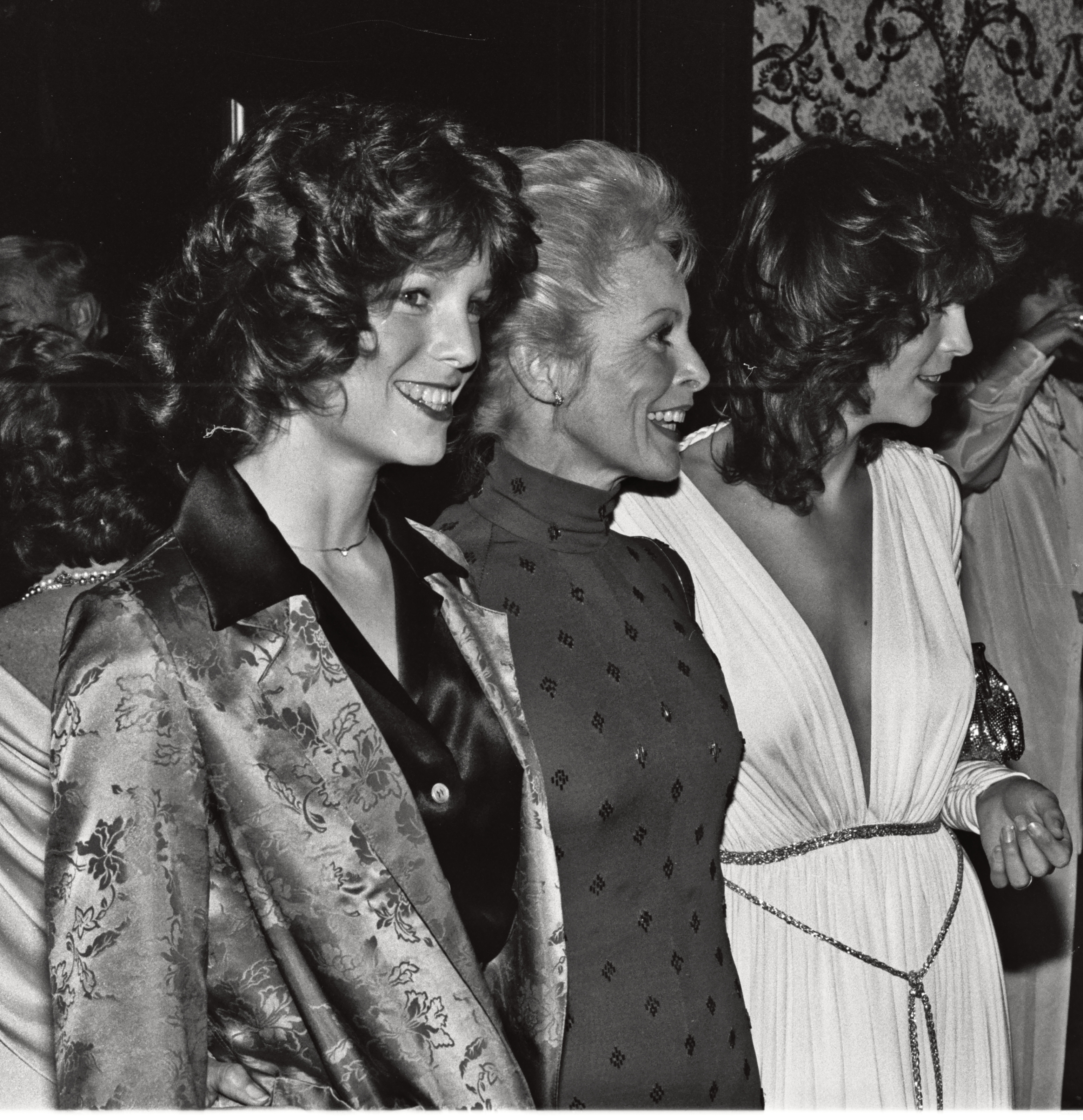 Janet Leigh (middle) with her daughters Kelly Curtis (left) and Jamie Lee Curtis (right) at the National Film Society convention in May 1979